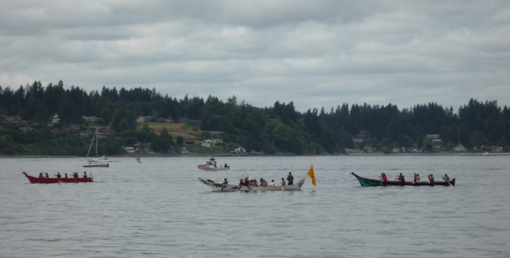 Traditional dugout canoes participating in the Paddle to Squaxin, arriving at the Squaxin traditional landing site on Budd Inlet, in Olympia, Washington state, USA. Tribal Journeys